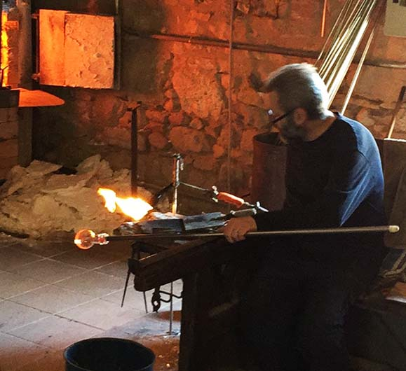 Glass Museum in Vimbodí, Catalonia